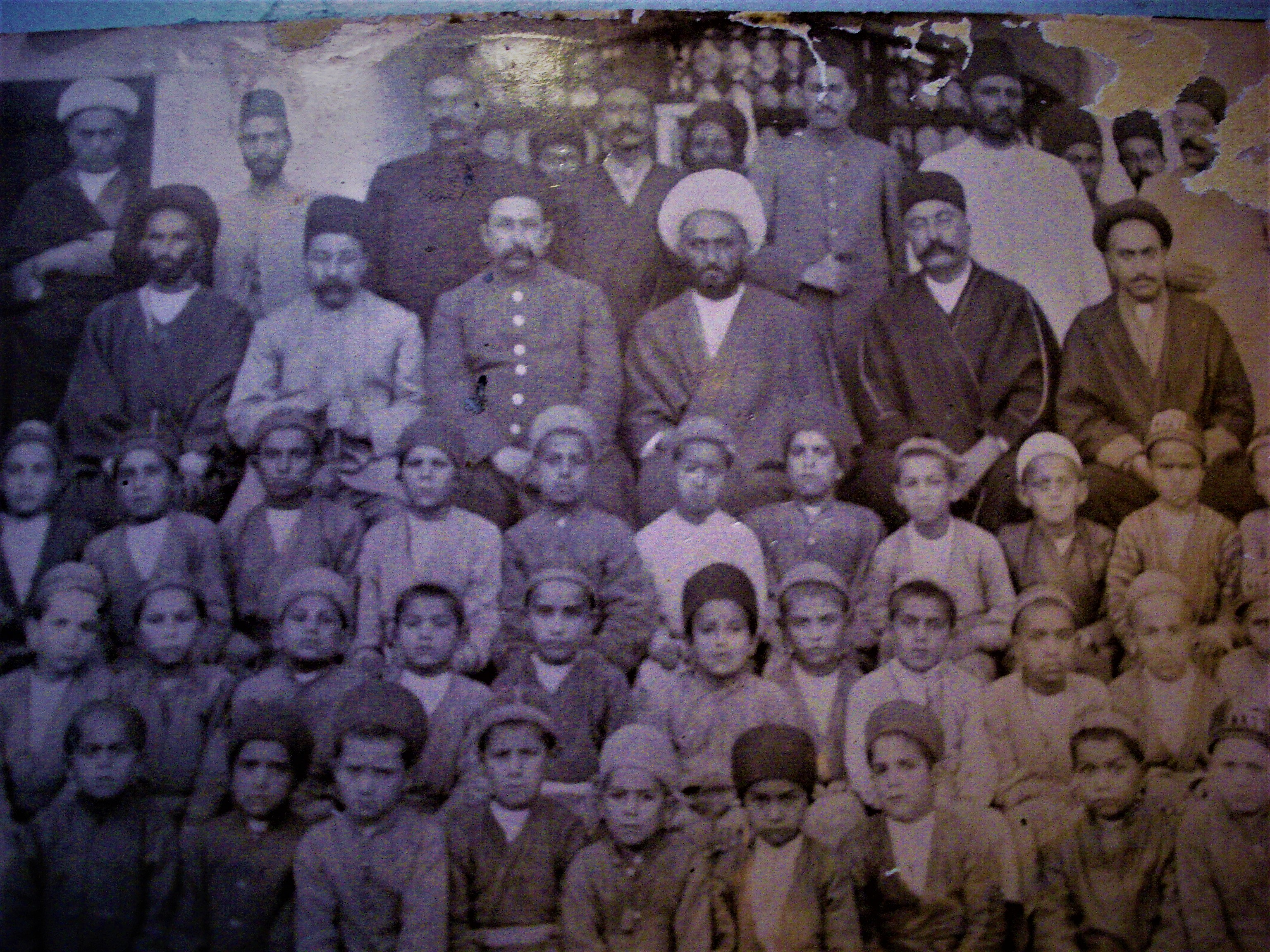 Board Members of Elieya and Aytam School. The school inaugurated on 1907/09/23. It was among the first schools in Esfahan that was teaching modern science to students Sitting on the middle, 4th person from Left, Mirza Ali Akbar Sheikholeslam Original picture belongs to Asadollah Sheikholeslami Esfahani. The digital picture was taken on 2011/07/17